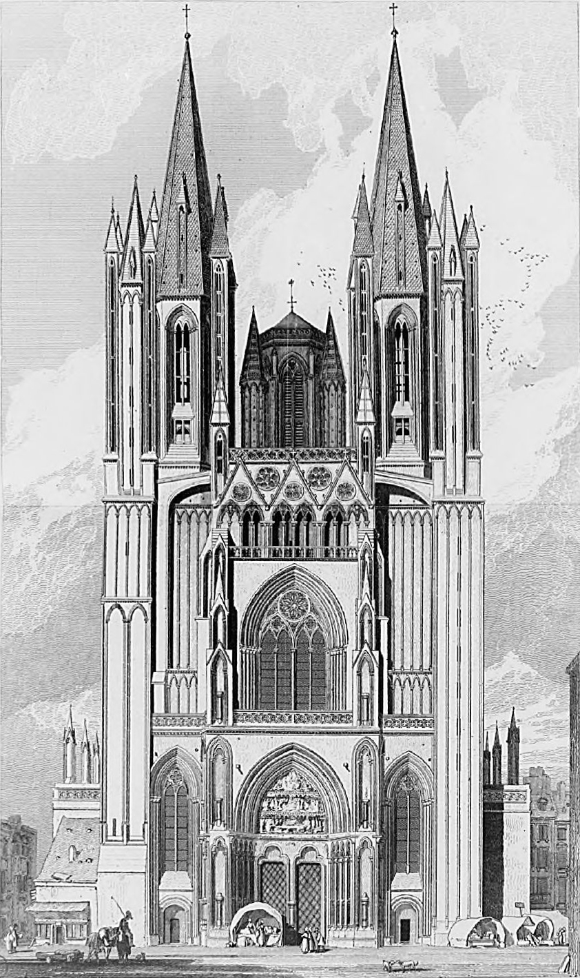 Old graving of Coutance Cathedral